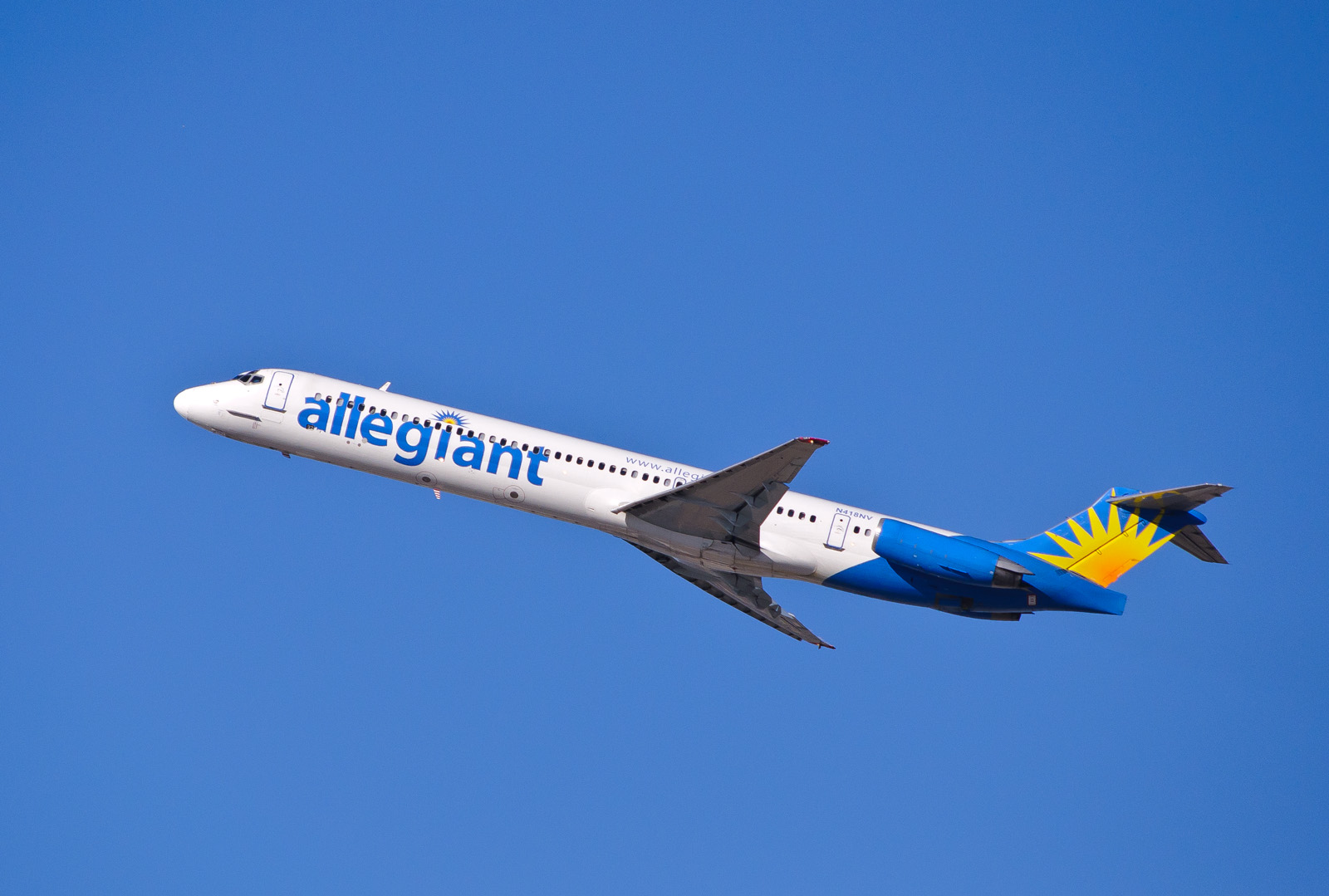 Allegiant 336 departs for Springfield, Missouri. This aircraft was originally built as an MD-82 in 1988 and delivered to SAS, where it was named "Spjute Viking" and carried registrations SE-DID and LN-ROY. Nordic East Airways and Reno Air had short-term leases on this aircraft; registration was N843RA under Reno Air. Upon retirement from SAS service, Allegiant Air acquired this aircraft in 2010 and had it upgraded to MD-83, though in 2011 it was sold to Sunrise Asset Management of Las Vegas then leased back to Allegiant. N418NV, McDonnell-Douglas MD-83